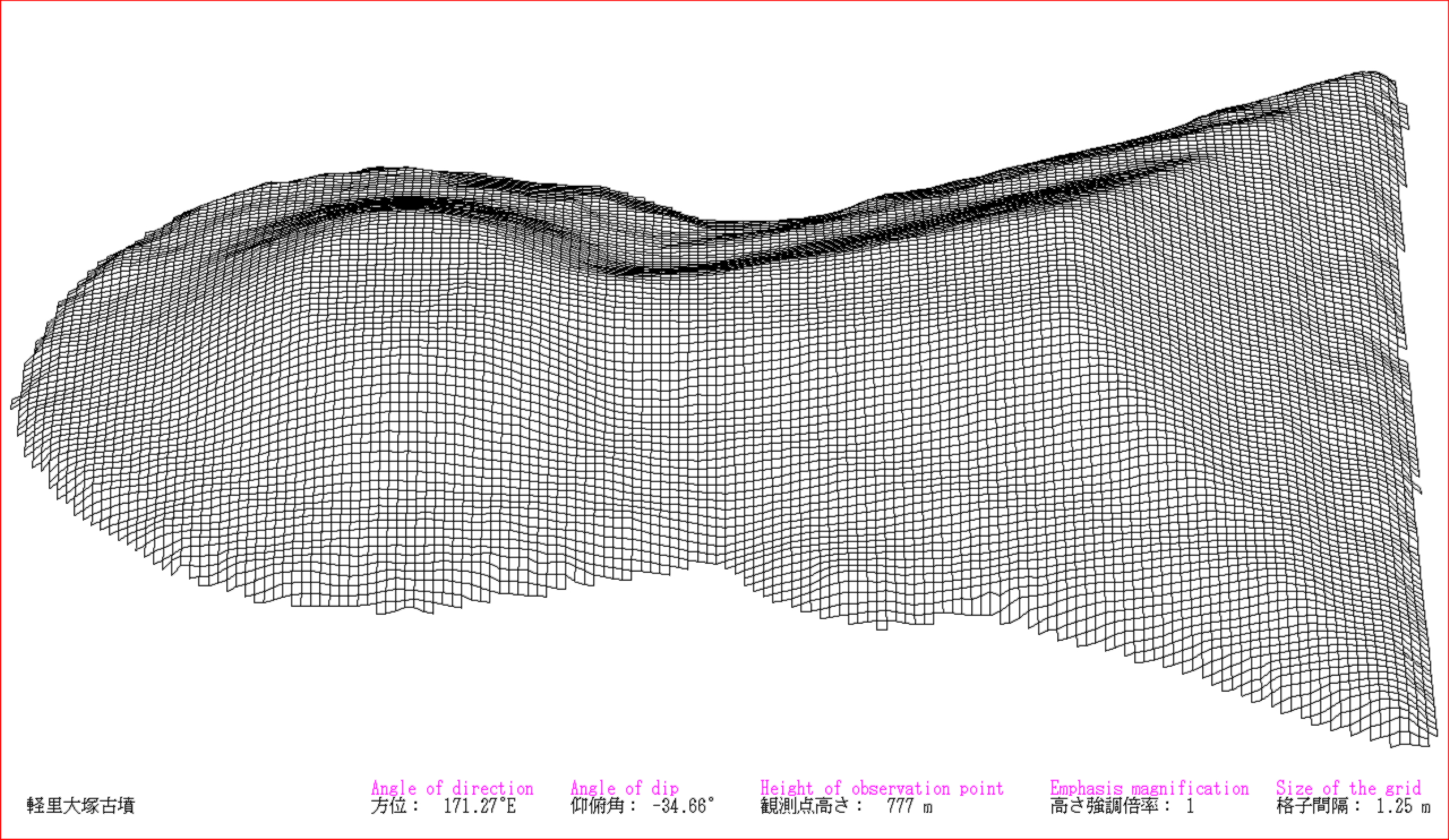 I who am a contributor drew the picture by a software which developed by myself. The survey map which I referred to depends on "「白鳥陵古墳」『古市古墳群測量図集成』古市古墳群世界文化遺産登録推進連絡会議（羽曳野市・藤井寺市） (2015年）". This is a drawing of present situation (not a drawing of a restored mound). The drawing depends on wire frame. Perspective projection.